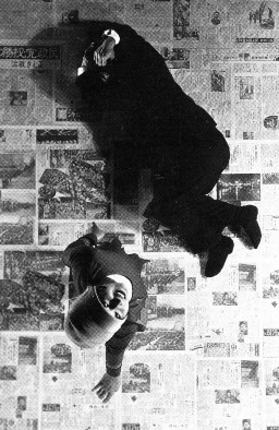 A photo from the Japanese film "A Living Puppet" (生 け る 人形: Ikeru ningyo, 1929, director Tomu Uchida)